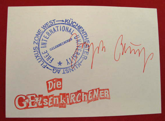 2 stamps of the Free International University Gelsenkirchen , 1978, signed by Joseph Beuys